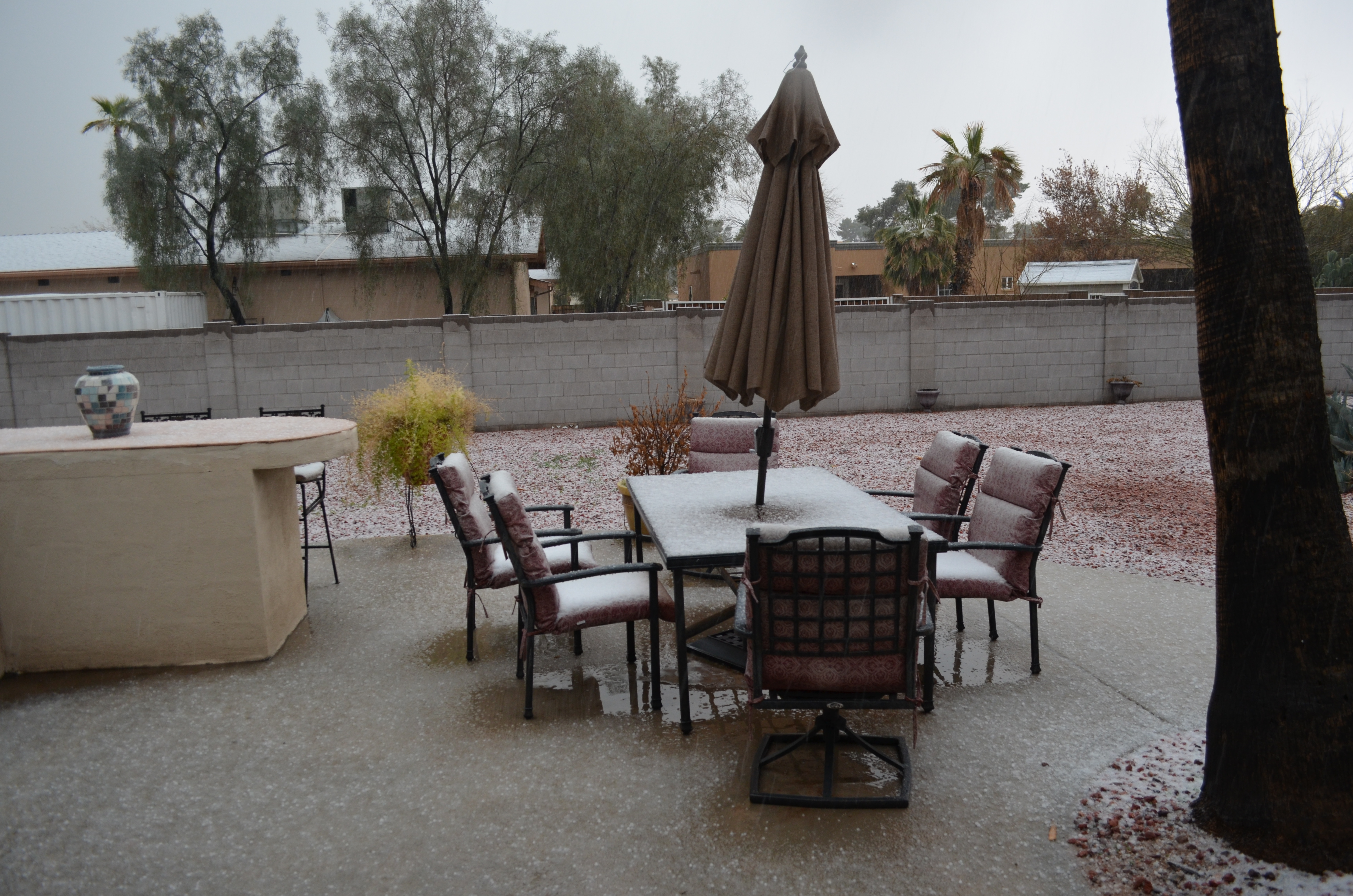 Graupel-Scottsdale 20 February 2013